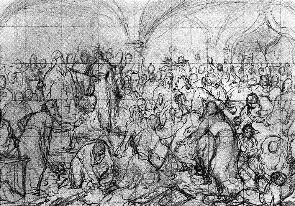 Nikita Pustosvyat. Debate about faith (pencil study by Vasily Perov, 1880)